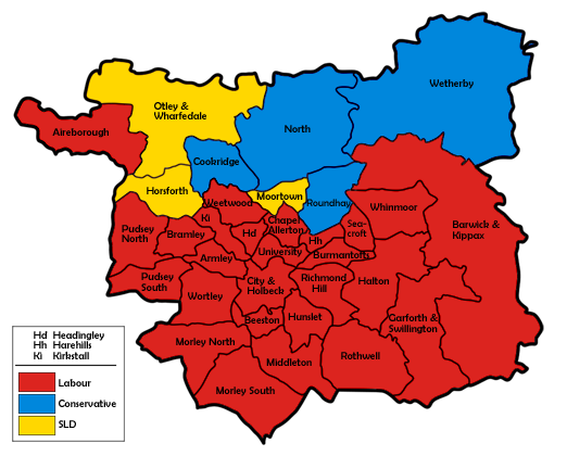 Ward map of Leeds City Council with political colouring for the 1990 election.